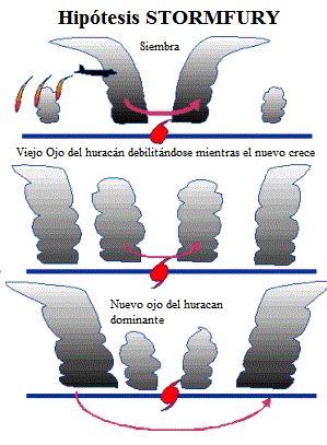 I changed the language of the picture